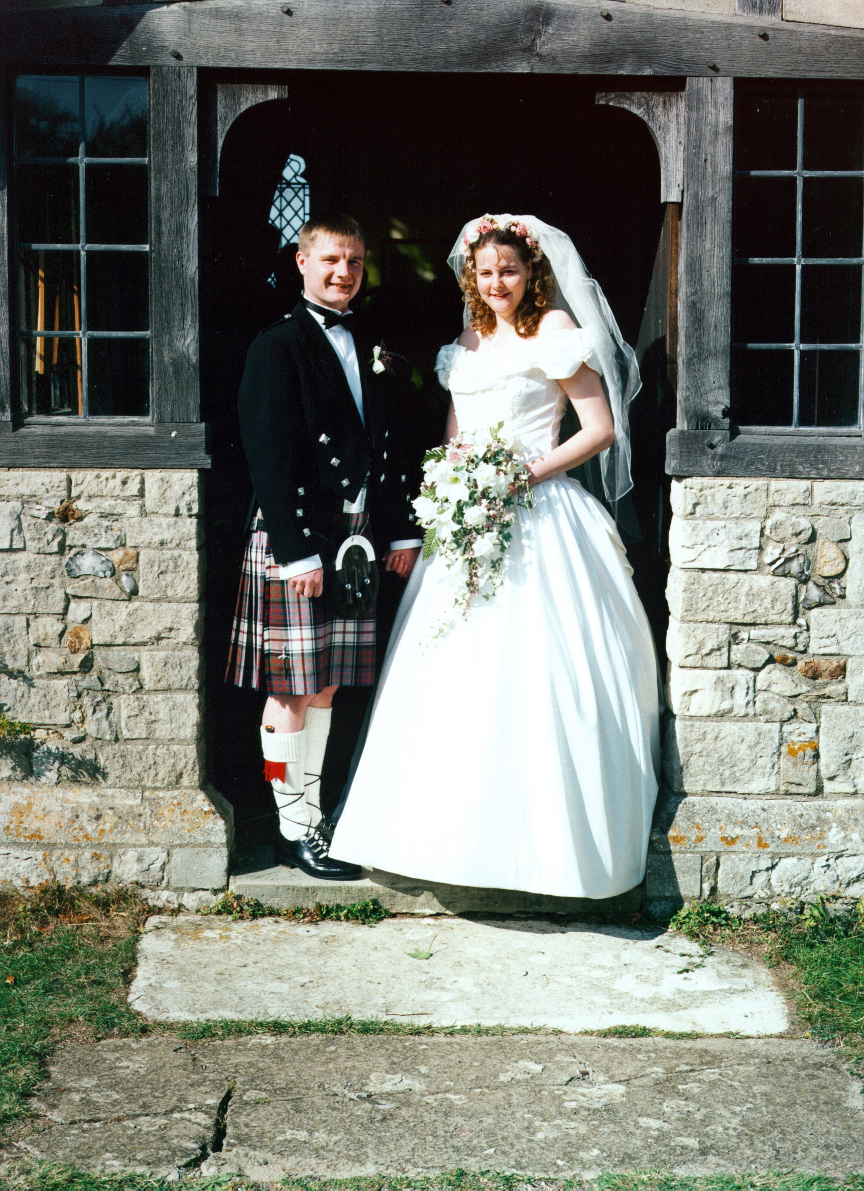 Gail Pursell who married John Macdonald at St. Stephens Church in September 1996.